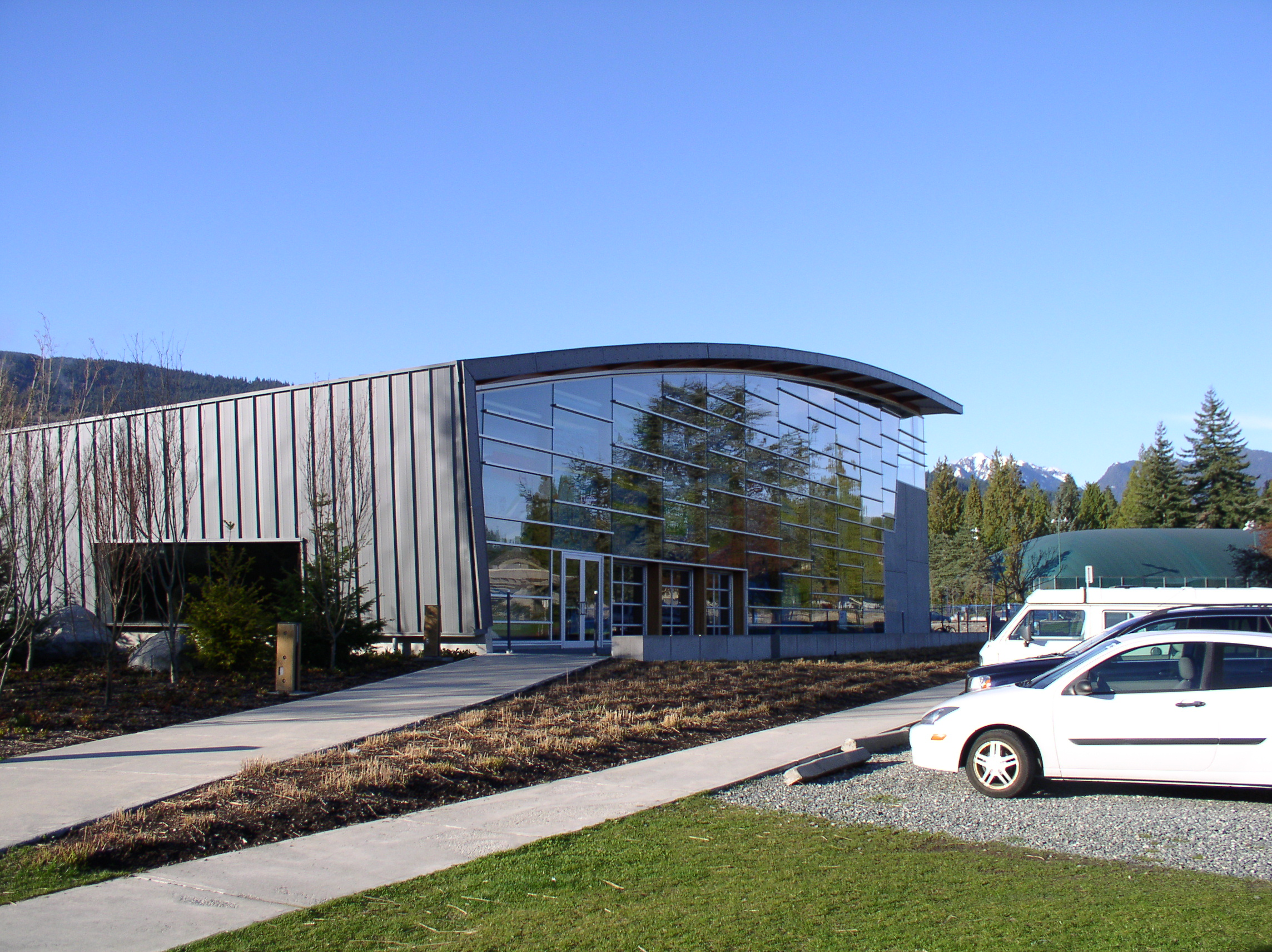 The West Vancouver Pool